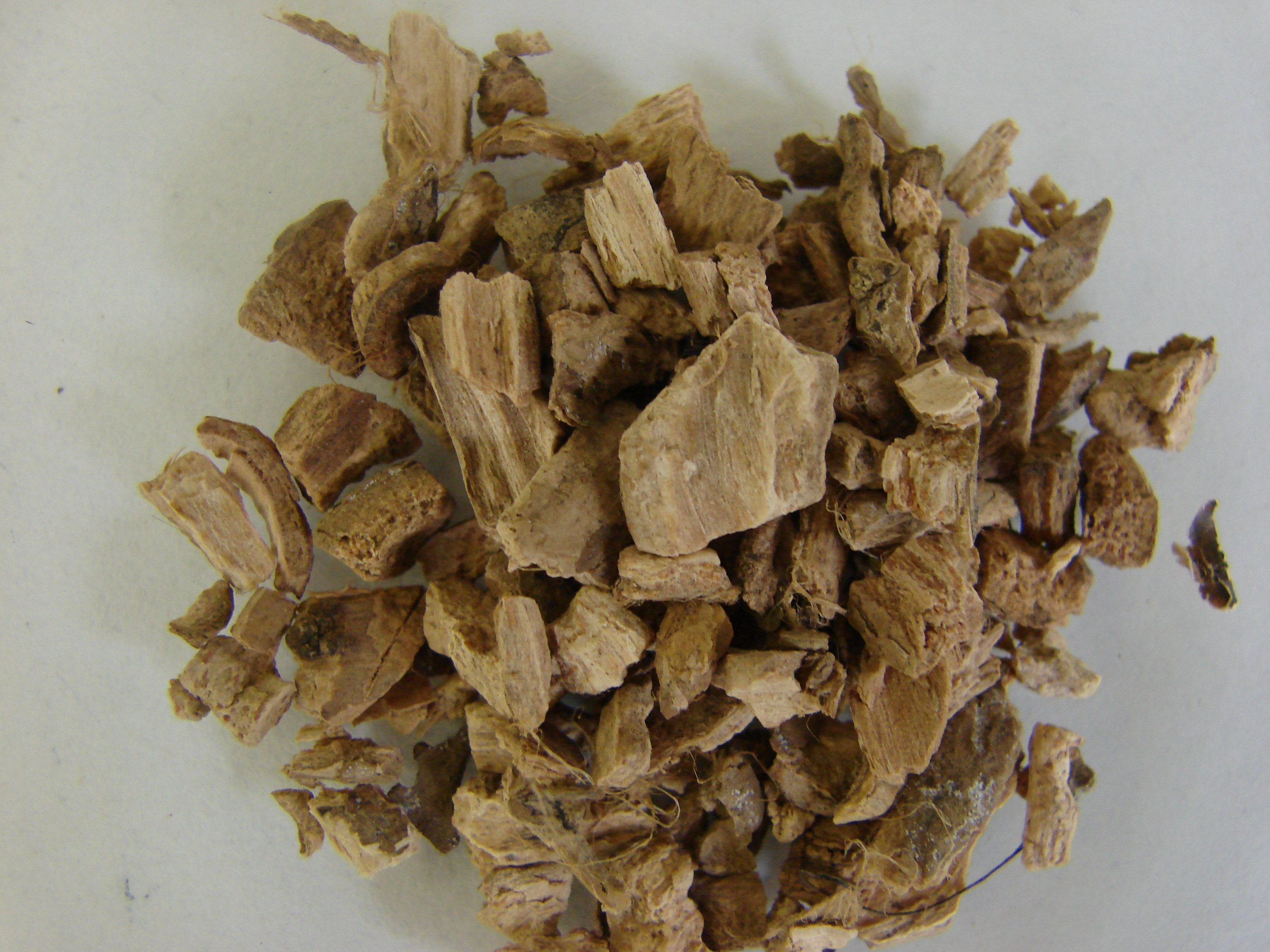 Condurango corex, Marsdenia condurango